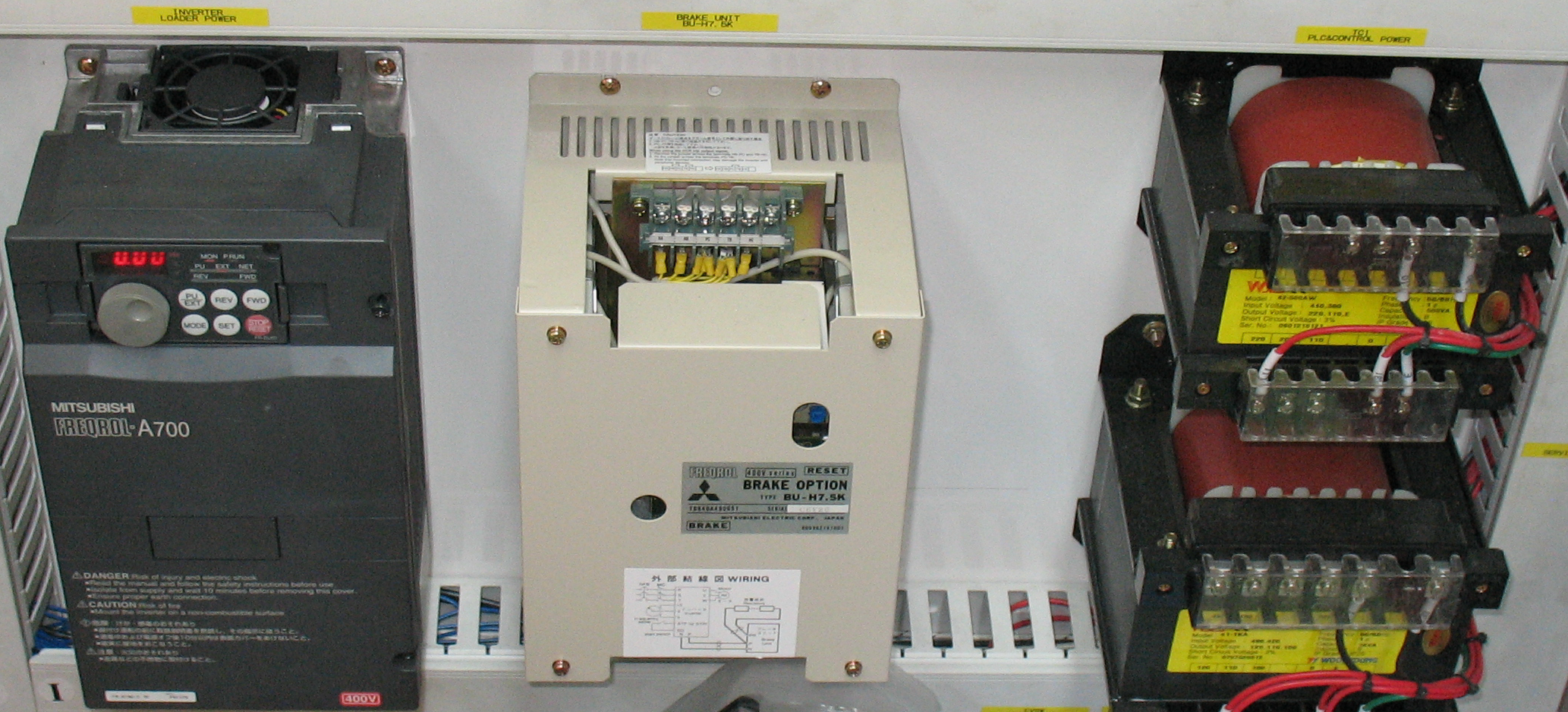 Variable-frequency drive FREQROL A700 by MITSUBISHI